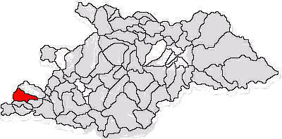 Location of Băiţa de sub Codru in Maramureş County